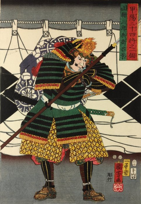 picture of samurai Masakage Yamagata